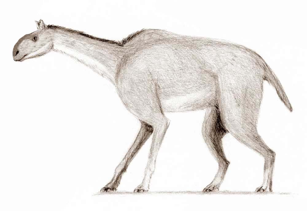 Resotration of Macrauchenia without a trunk